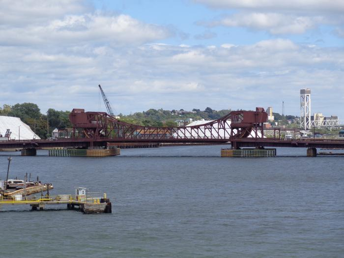 Andrew McArdle Bridge between East Boston and Chelsea, Massachusetts. From Wikimapia. The Chelsea Street Lift Bridge is in the background, right.